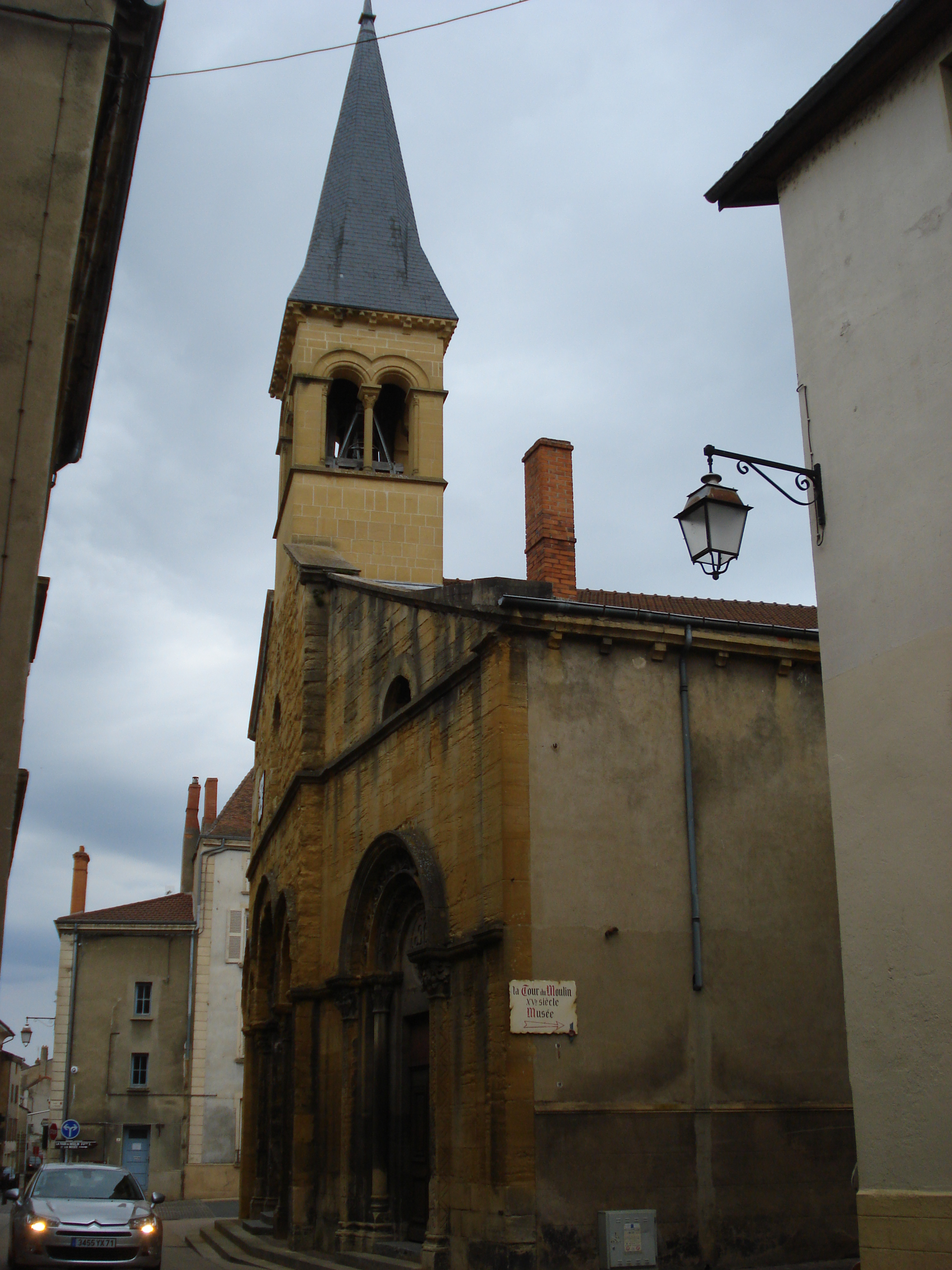 Marcigny (Saône-et-Loire-Fr), l'église.